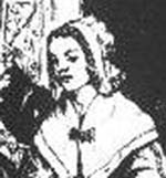 Margaret Fell (1614-1702). Detail from etching by Robert Spence.